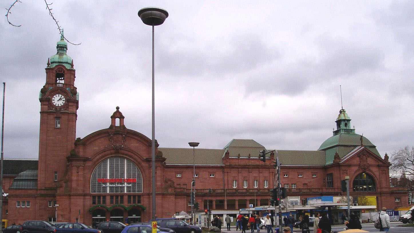 wiesbaden railroad station